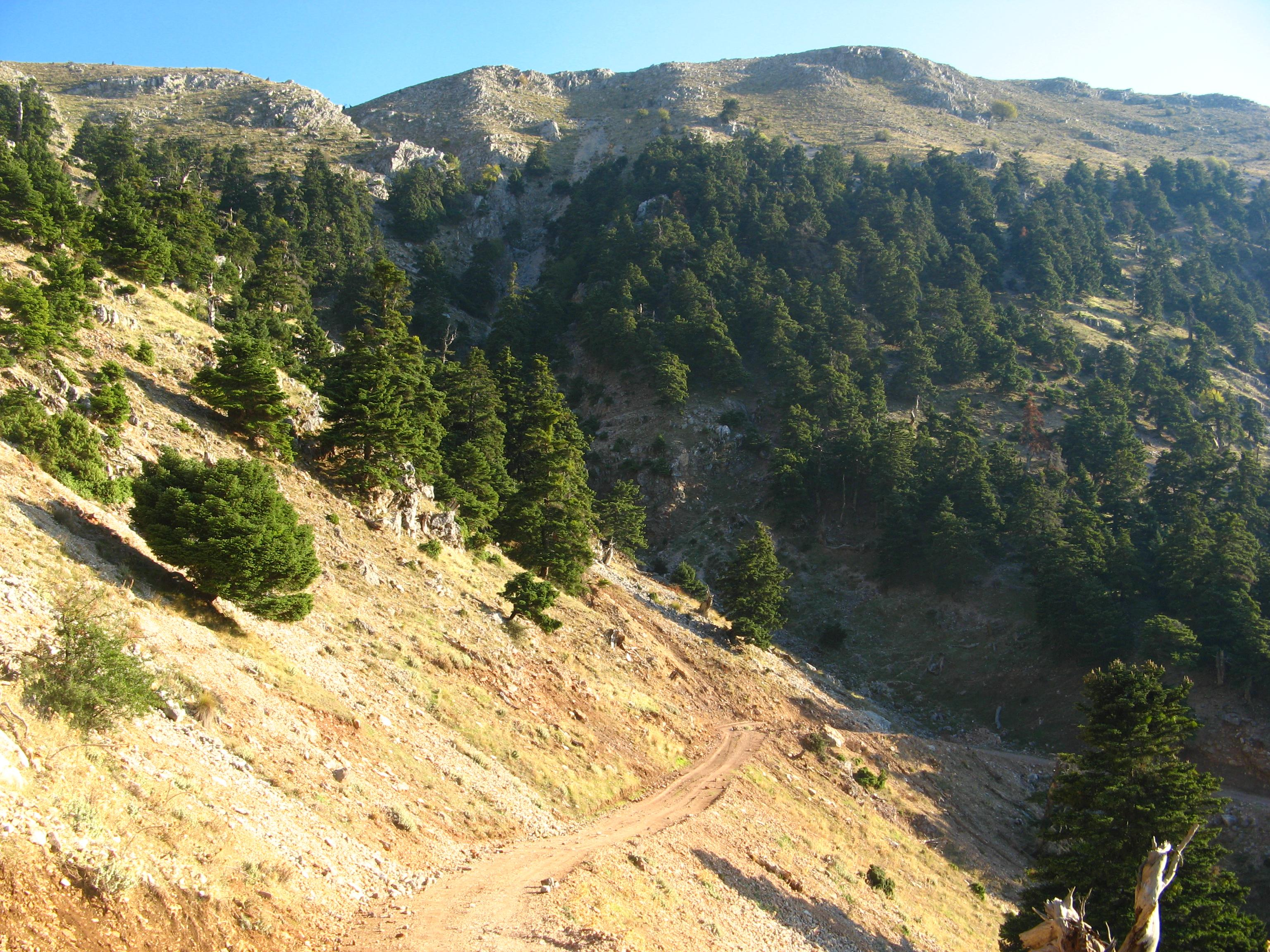 Elata souli, Panachaiko Mountains, Greece; with Abies cephalonica forest.